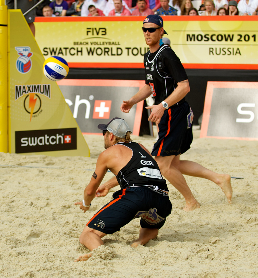 Grand Slam Moscow 2012